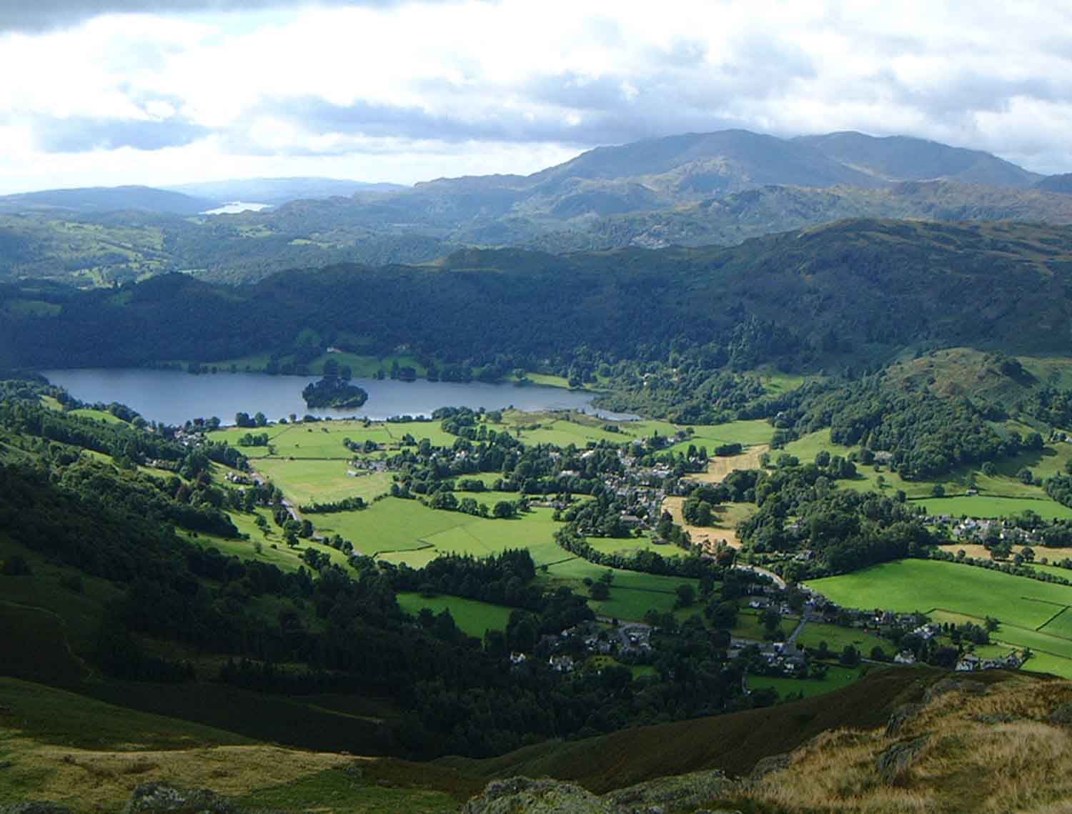 This Photo shows Grasmere, Cumbria seen from Stone Arthur